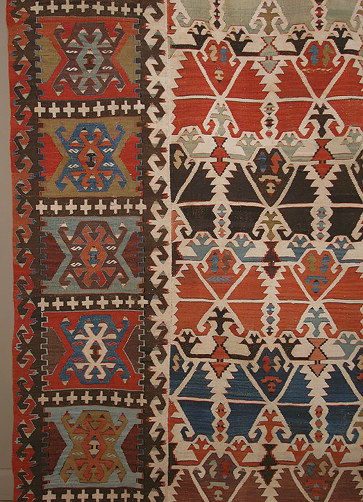 Hotamis Kilim Central Anatolia. Early 19th century Wool. 6'x 15'6" Slit tapestry, W-6874